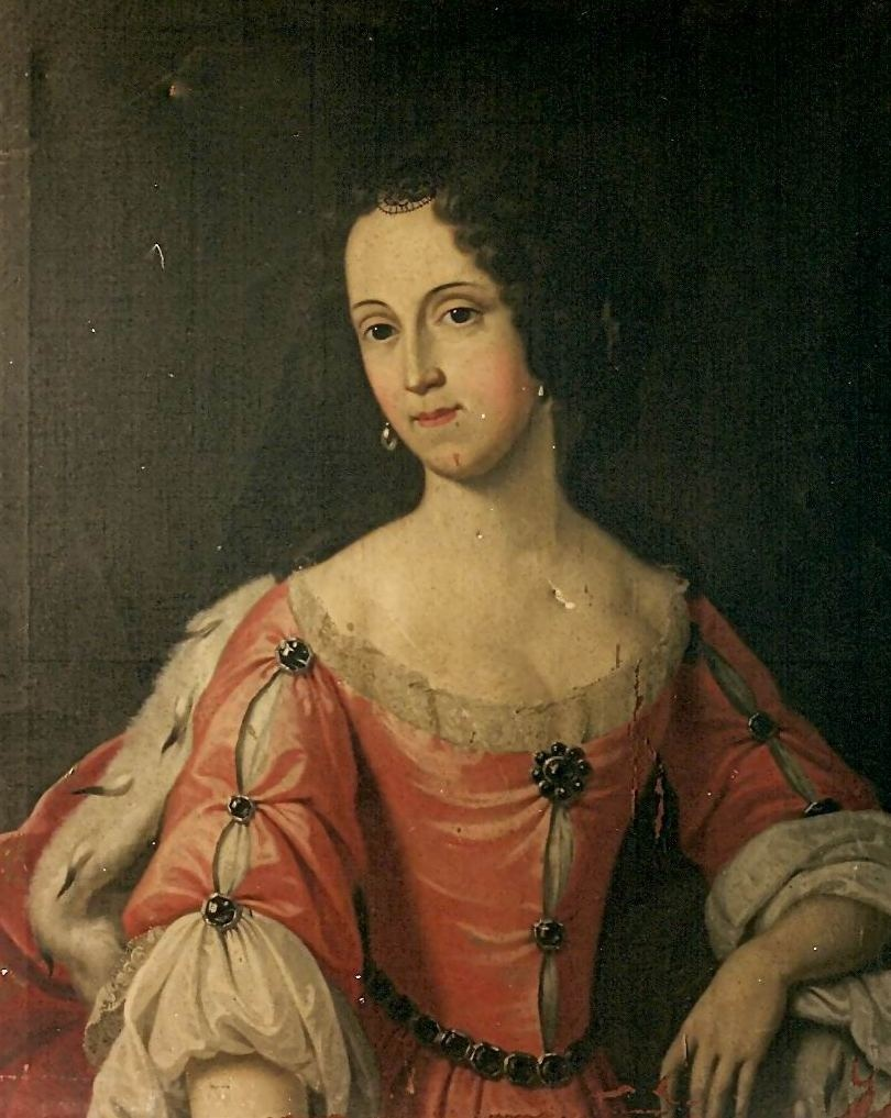 Porträt von Sophia Eleonora Fürstin zu Anhalt, geb. Herzogin von Schleswig-Holstein (1603-1675) nach links im roten Seidenkleid mit Broschen und Spitze, Purpurmantel mit Hermelinbesatz. Beschädigungen. Sophia Eleonora Fürstin zu Anhalt war die Gemahlin von Christian II v. Anhalt-Bernburg. Rückseite Leinwand: Sophia Eleonora, Fürstin zu Anhalt, geb. Herzogin zu Schleswig-Holstein, Stormarn u. d. Dimarsen, Gräfin zu Askanien, Oldenburg und Delmenhorst, geb. 1603, gest. 1675